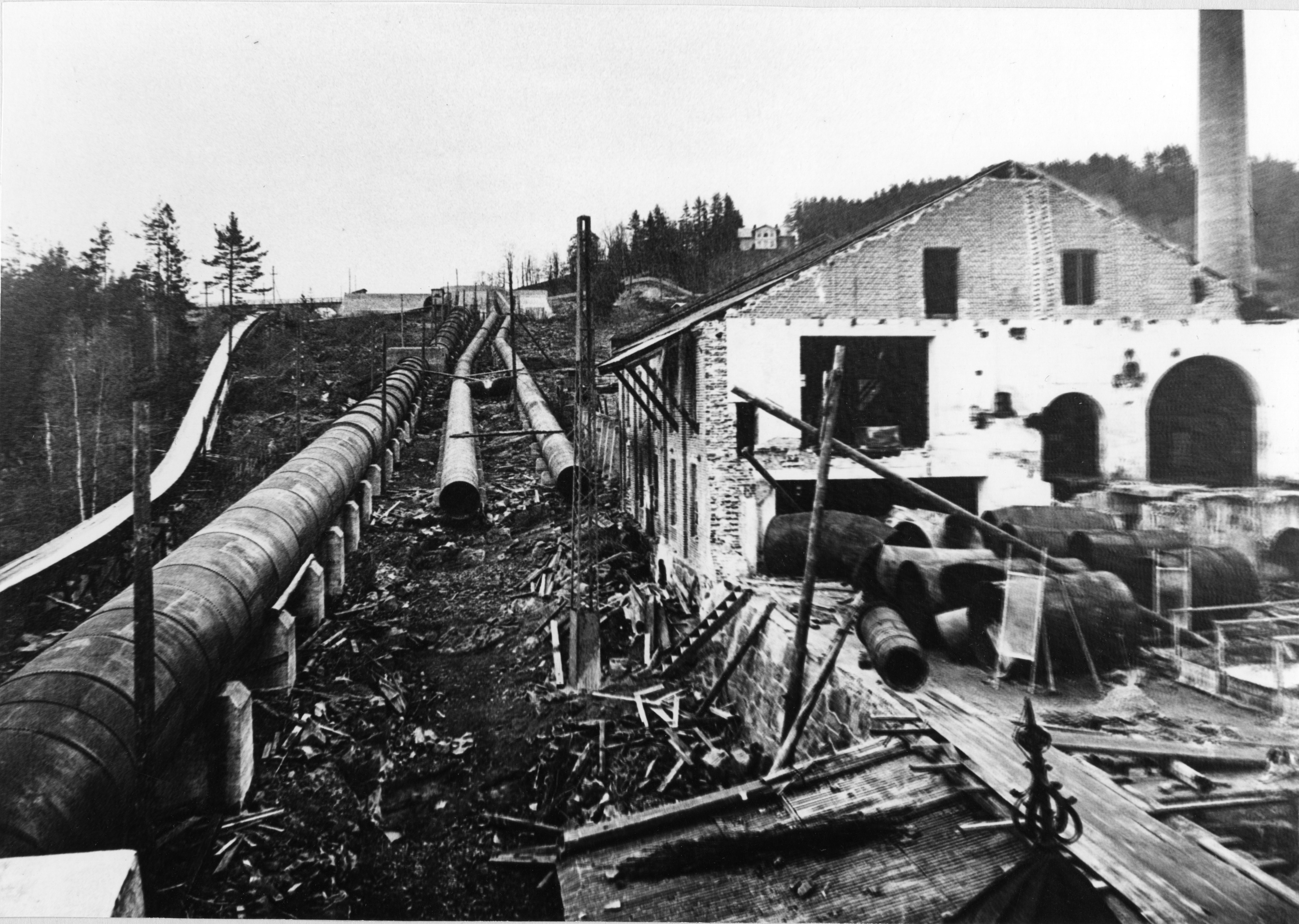 Utvidelse og ombygging av Labro kraftverk, gammel sliperibygning, ca. 1917